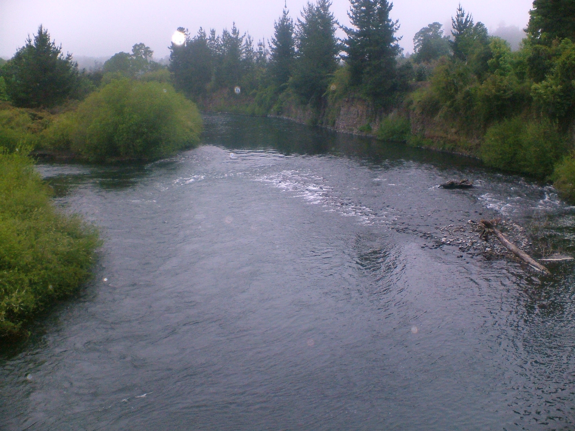 Cautin's River